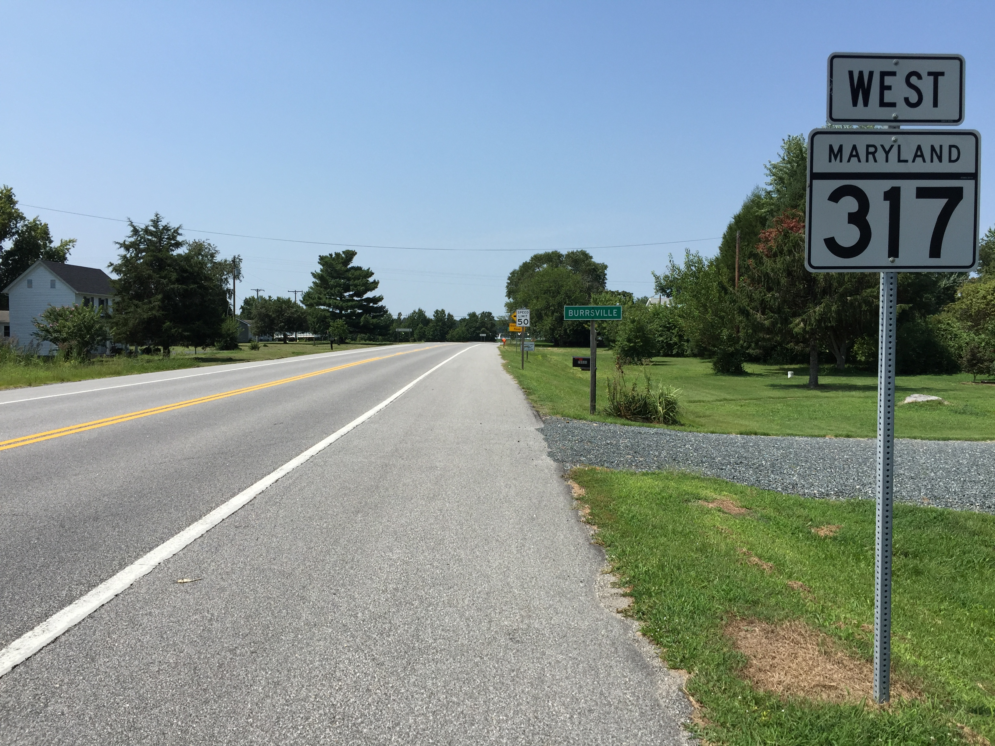 View west along Maryland State Route 317 (Burrsville Road) just east of Knife Box Road in Burrsville, Caroline County, Maryland